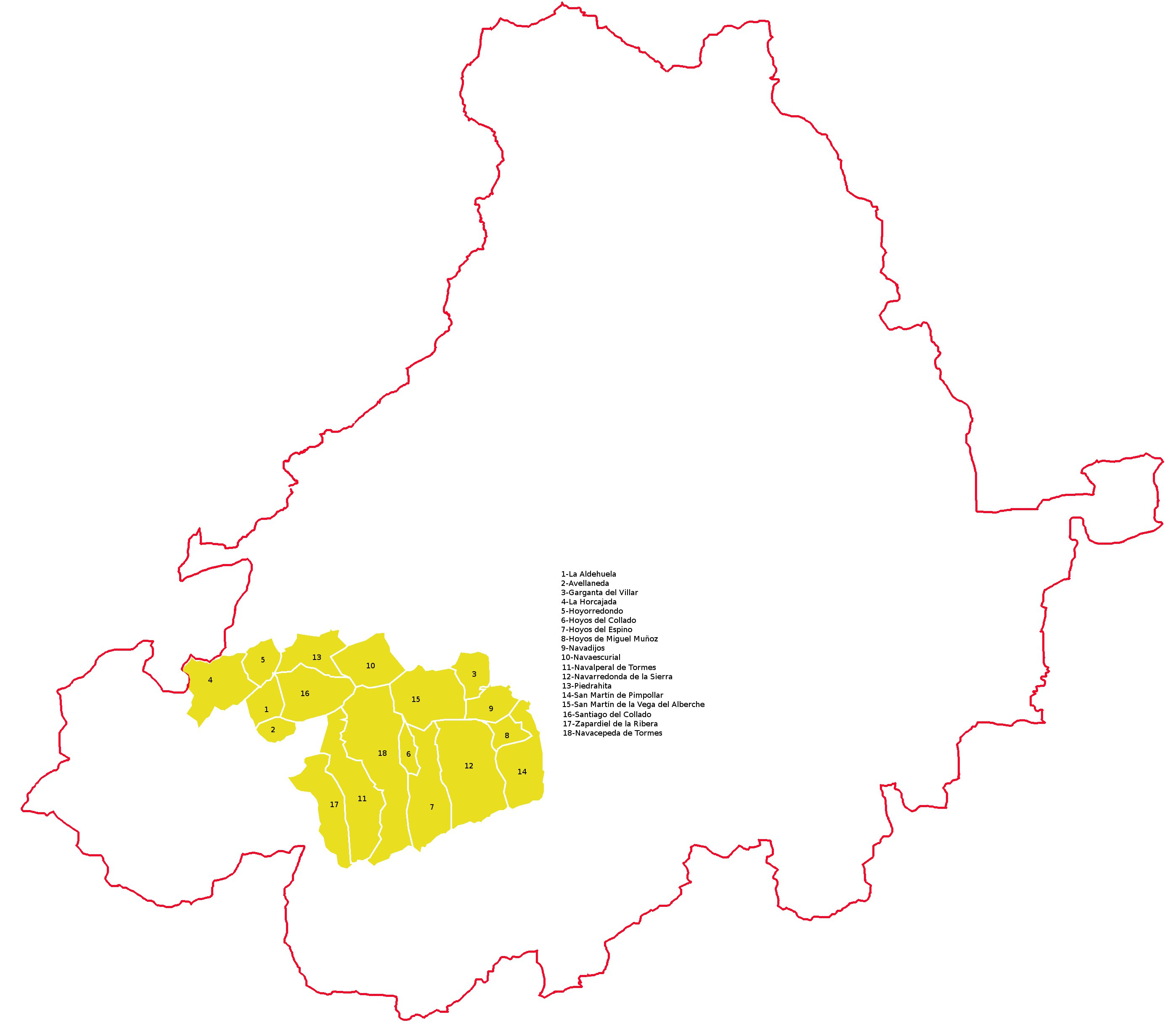 Municipios del Arciprestazgo de Piedrahita